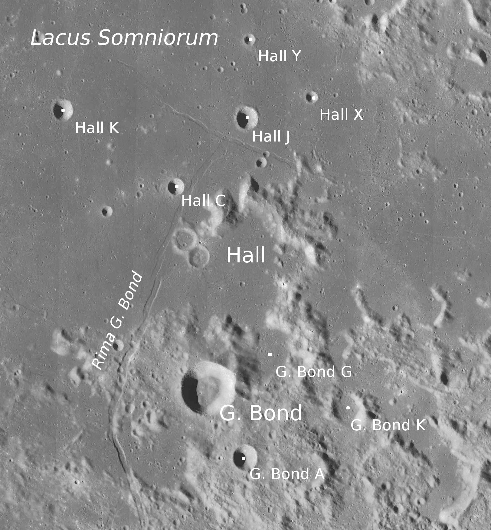 Craters G. Bond and Hall (detail of LRO - WAC global moon mosaic; Mercator projection)